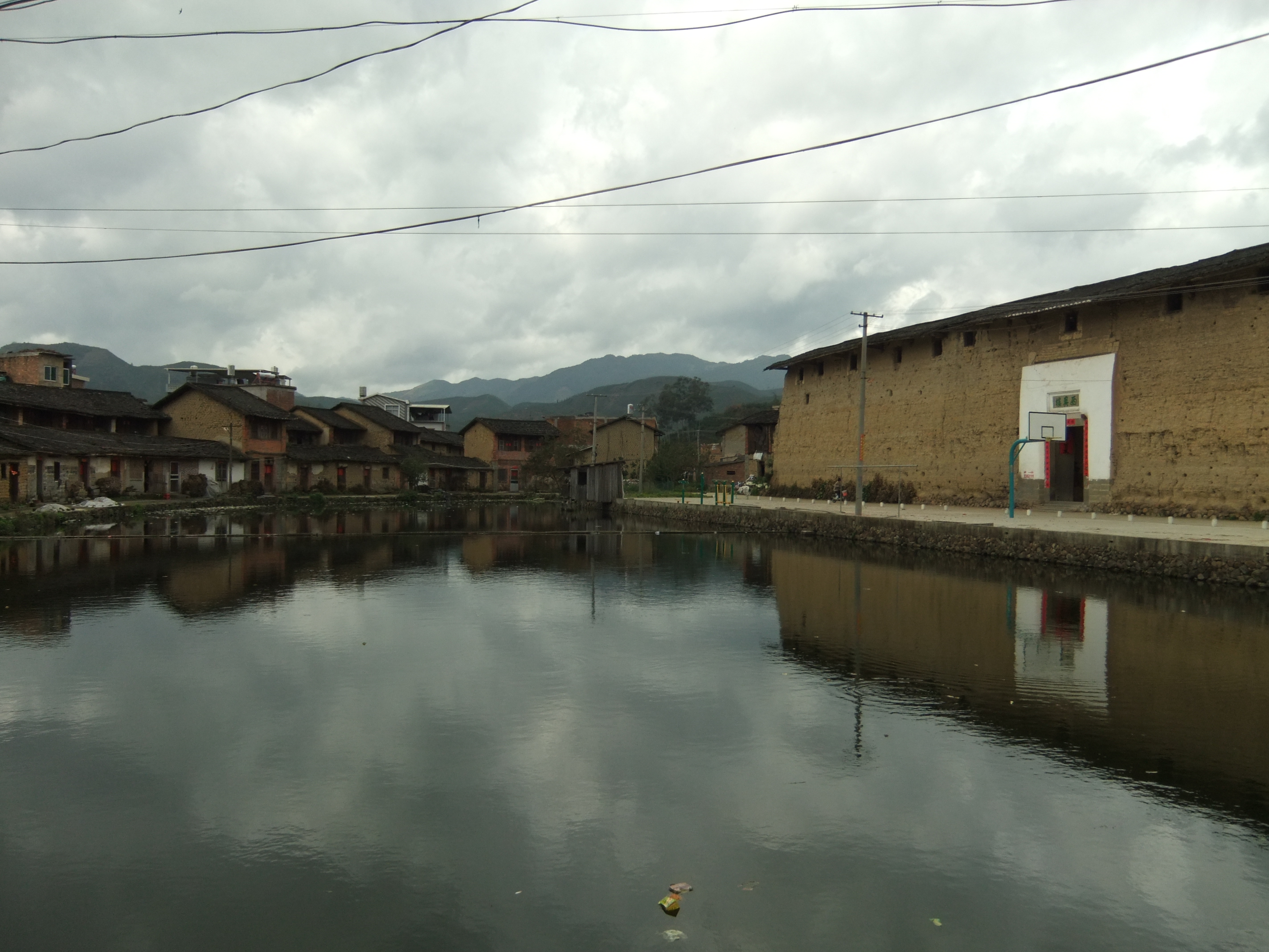 The pond in front of Xishuang Lou in Xi'an Village, Xiazhai Town.